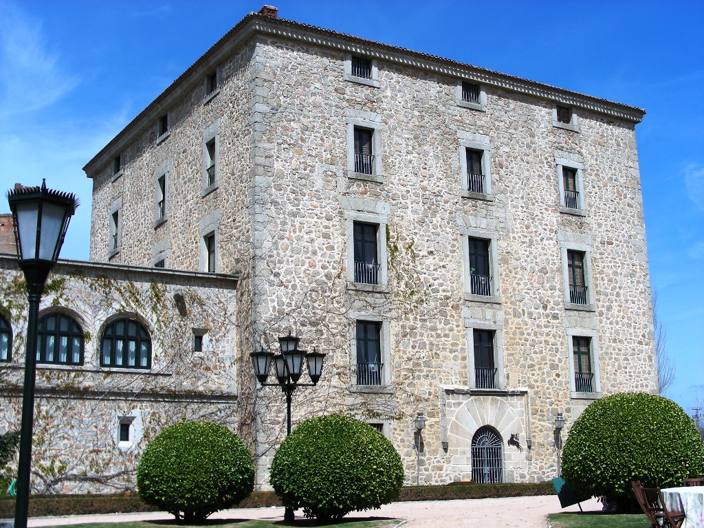 El Campillo (El Escorial, Community of Madrid, Spain)